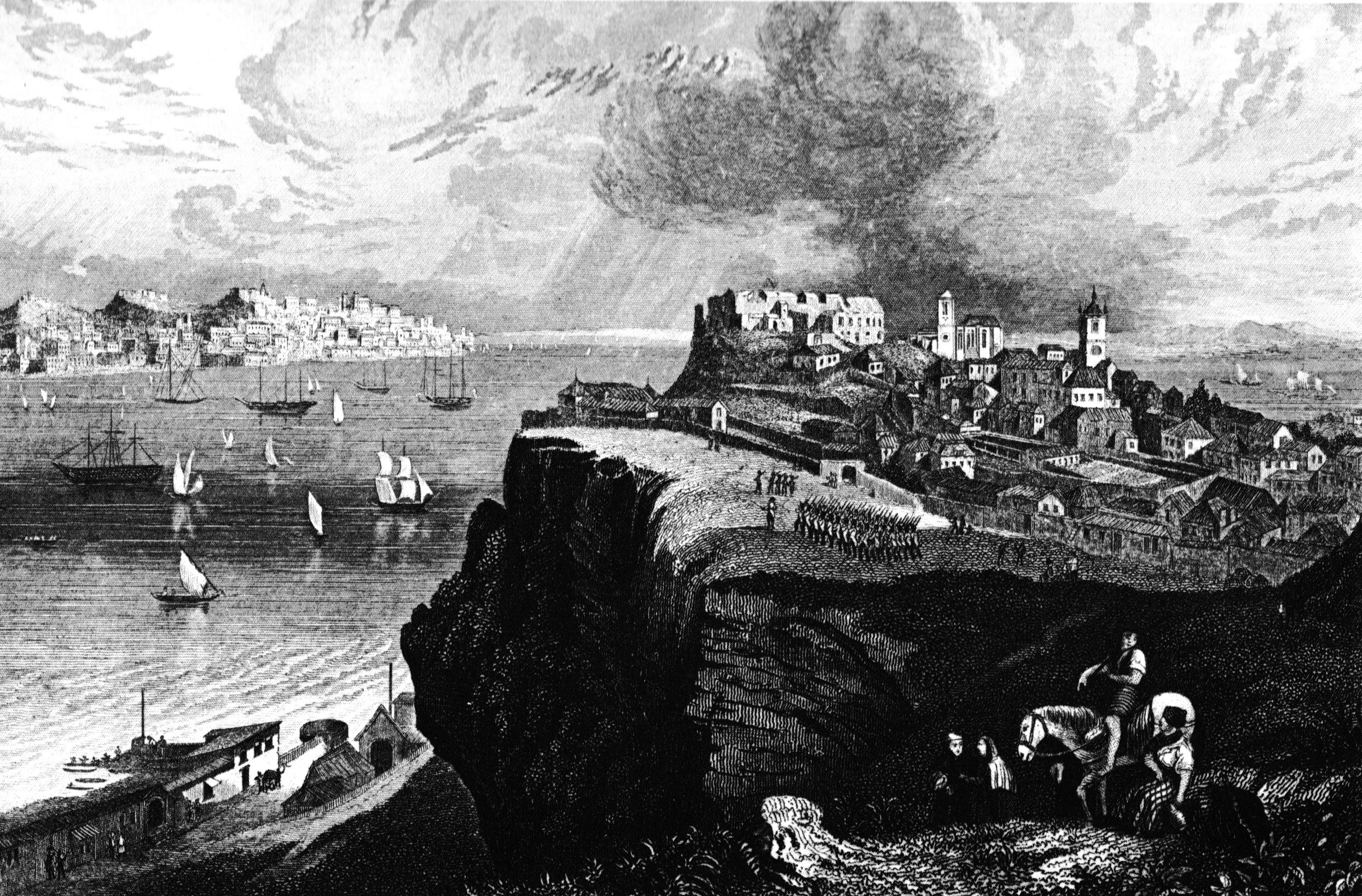 Lisbon panoramic view from Fort Almada, around 1835. Artist: Grünewald.